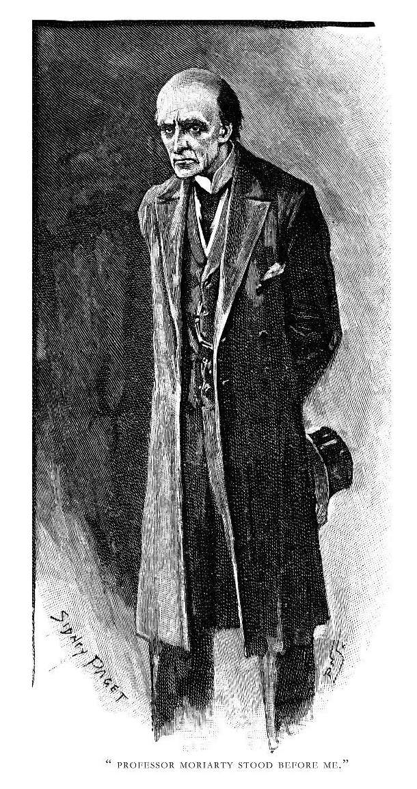 Professor Moriarty. From the Sherlock Holmes story "The Final Problem", which appeared in The Strand Magazine in December, 1893. Original caption was "PROFESSOR MORIARTY STOOD BEFORE ME.".